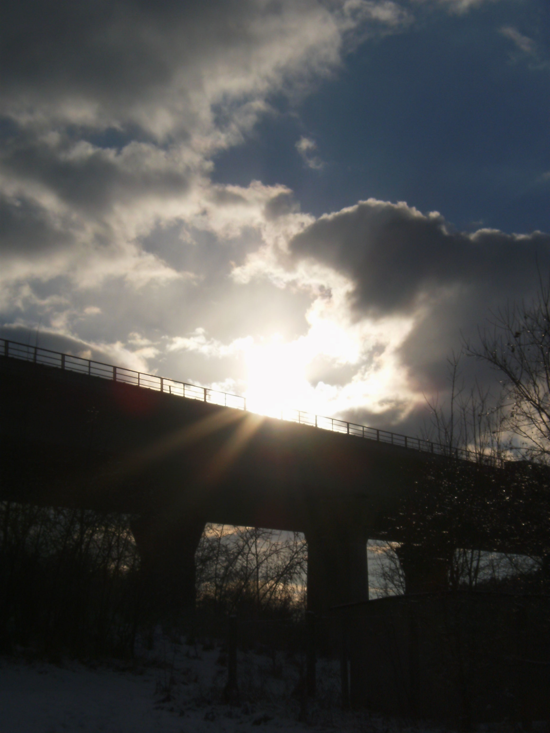 Highway bridge Gera-Thieschitz Thuringia.